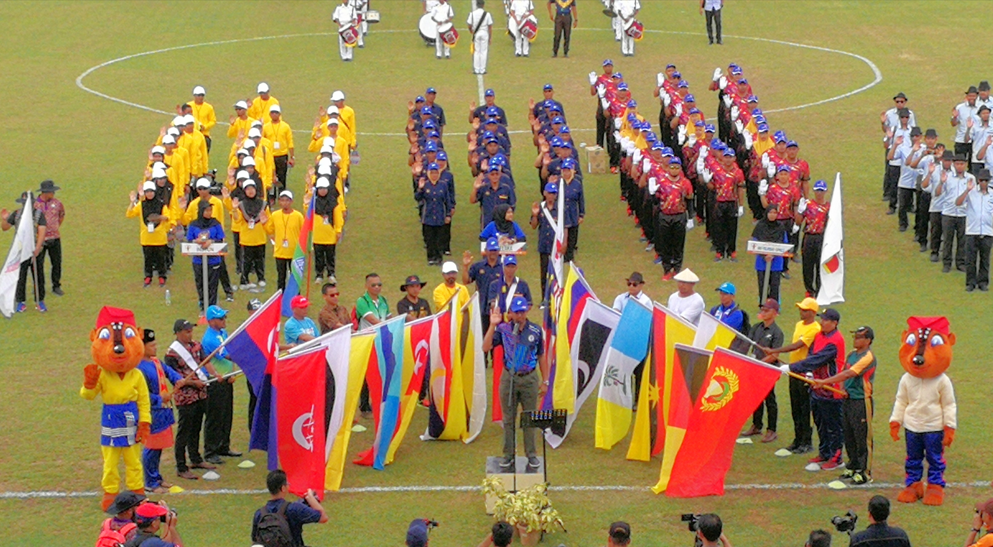 Pesuma32 Lafaz Ikrar oleh Sr Hishamudin Kaiyim